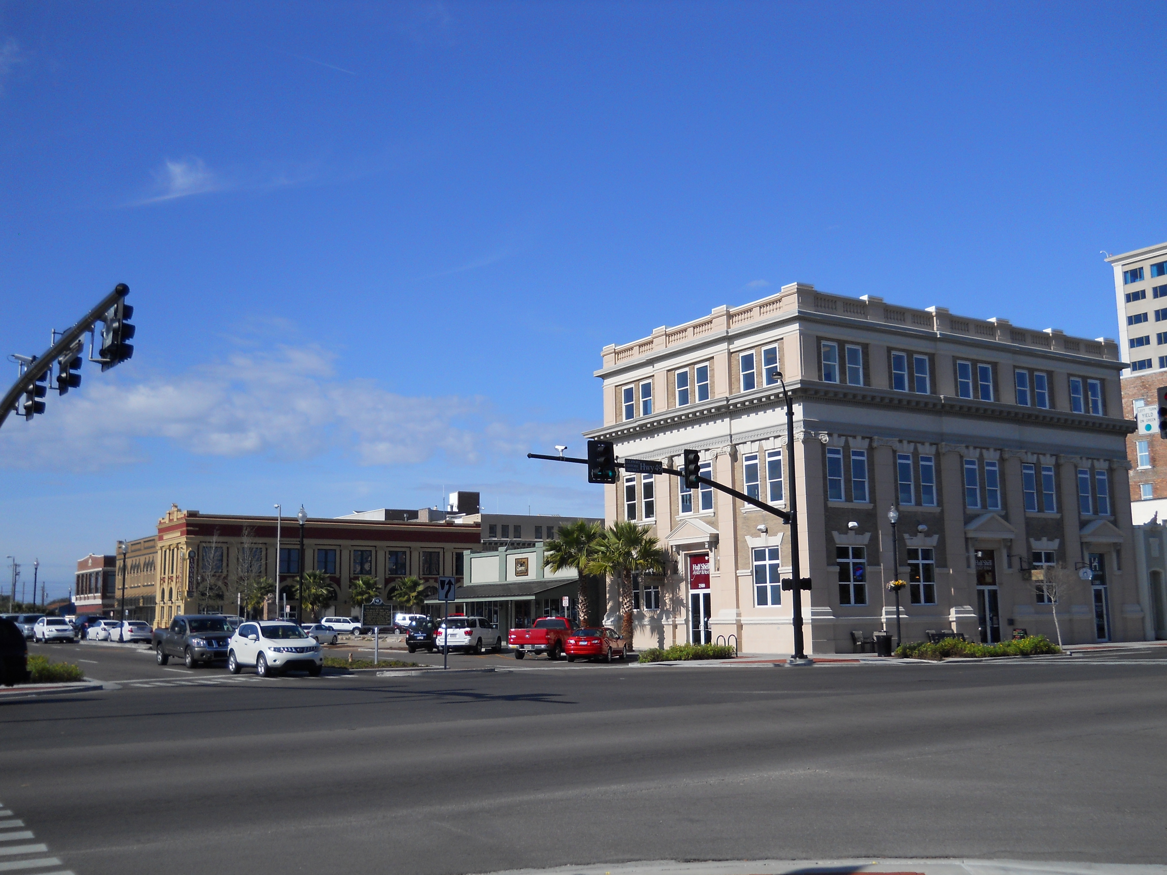 Northwest view of Gulfport Harbor Square Commercial Historic District taken from the intersection of 25th Avenue and 13th Street, Gulfport, Mississippi, USA.